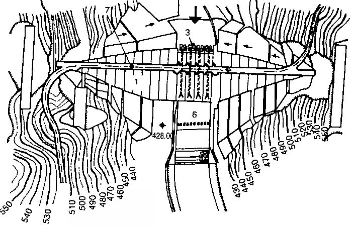 Plan of Izvorul Muntelui Dam